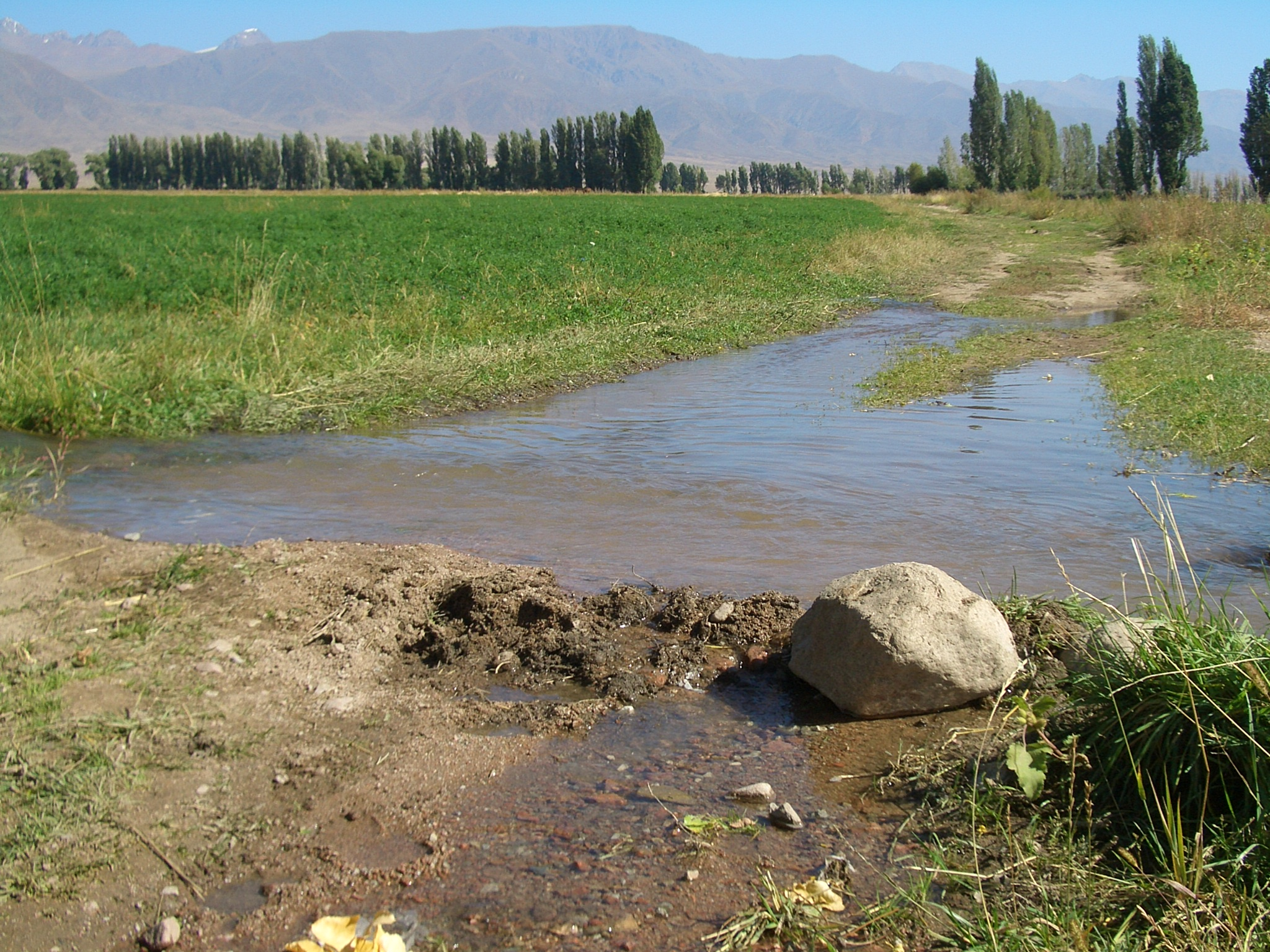 Small temporary mud dams - created or destroyed as needed - are used to control outflow of water from the aryk (which, in Tamchy, is an aritificially channelled creek, rather than a real canal) to irrigated fields around the Tamchy village.